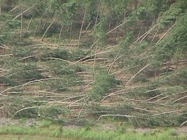 Downsburst damages in northwest Monroe County, WI: all the trees are blown in the same direction.